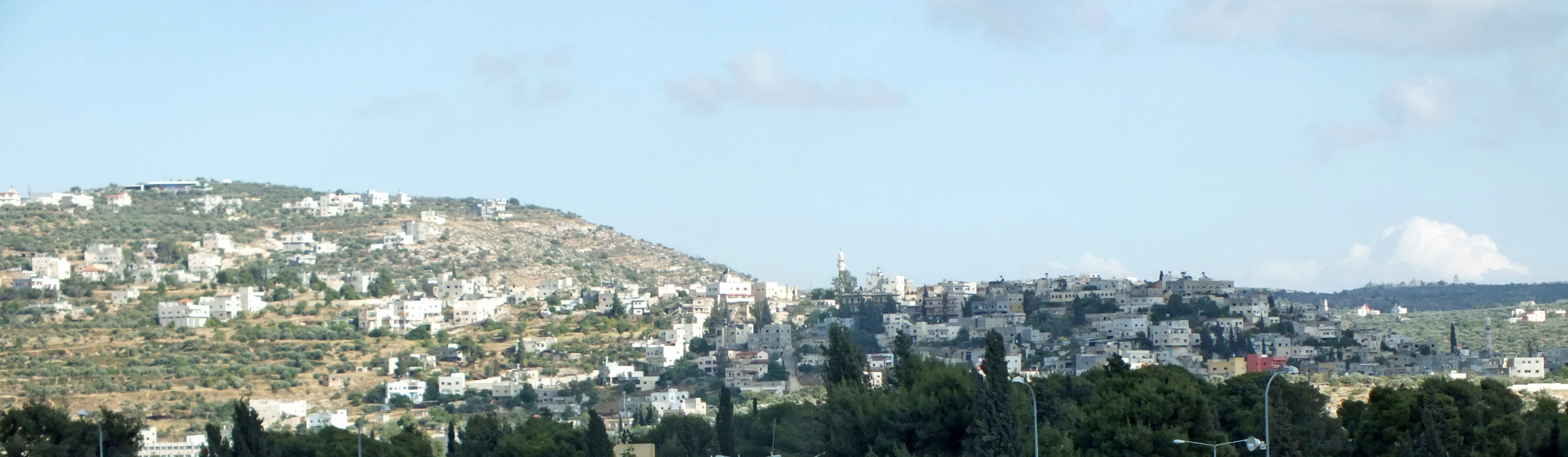 Viewed from the southern outskirts of Nablus, by its general orientation this is likely to be Awarta - but I can’t be 100% sure. Notify me with a more certain one if you know the area and identify it.